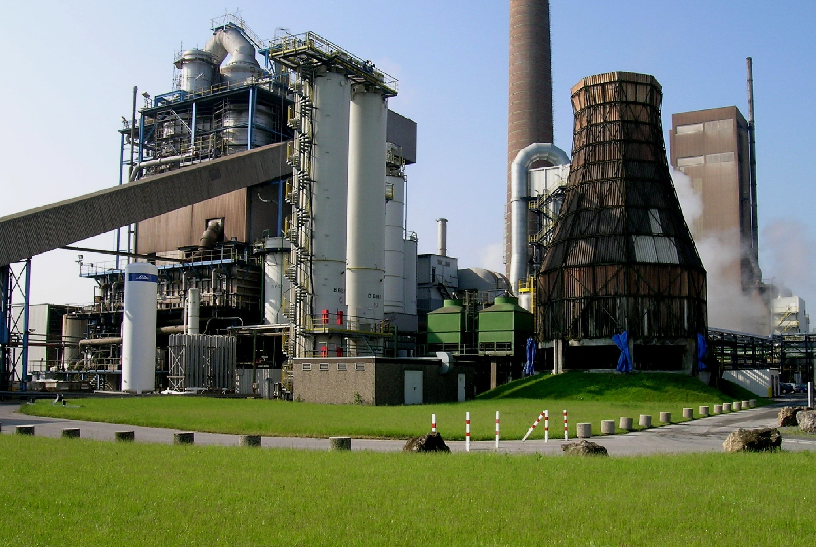 VAW-Lippewerk, The first power plant to use a fluidized bed in the 1960s. This former coal power plant is part of Lippewerk industrial park in Lünen, Germany.